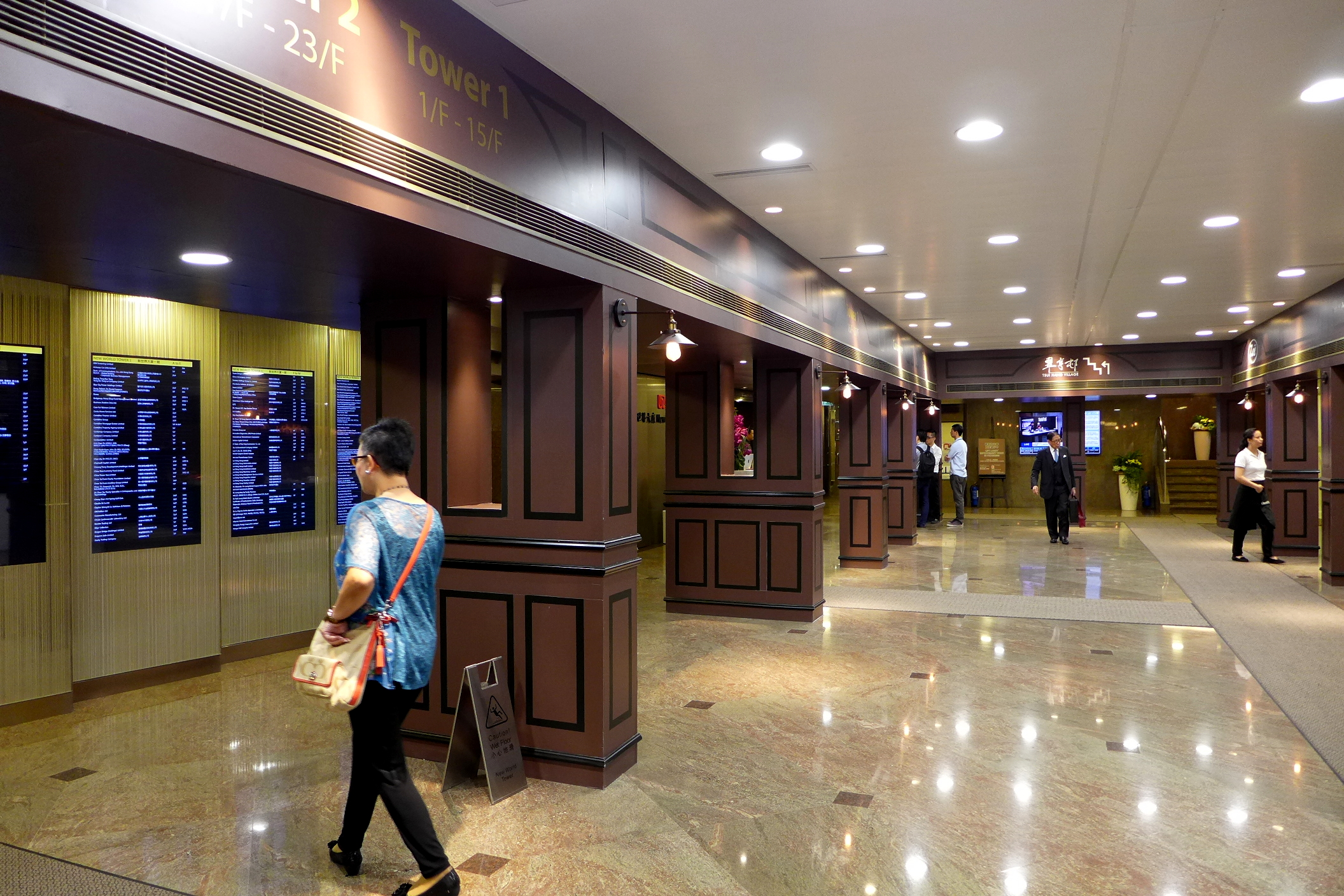 New World Tower Lobby